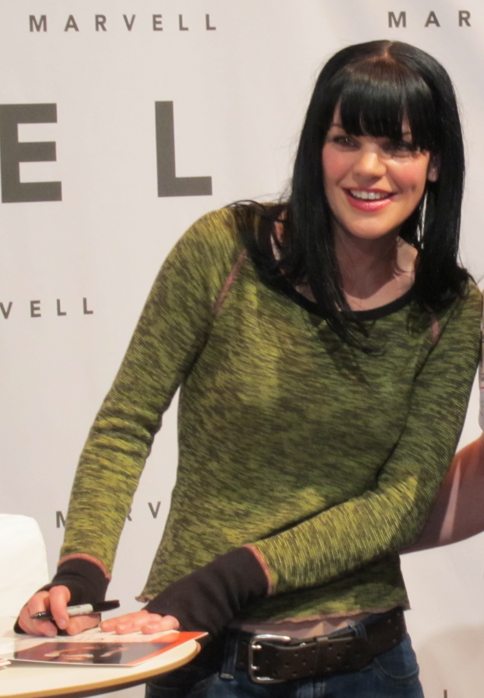 Actress Pauley Perrette, aka Abby Sciuto from "NCIS", signs autographs for fans in Las Vegas.